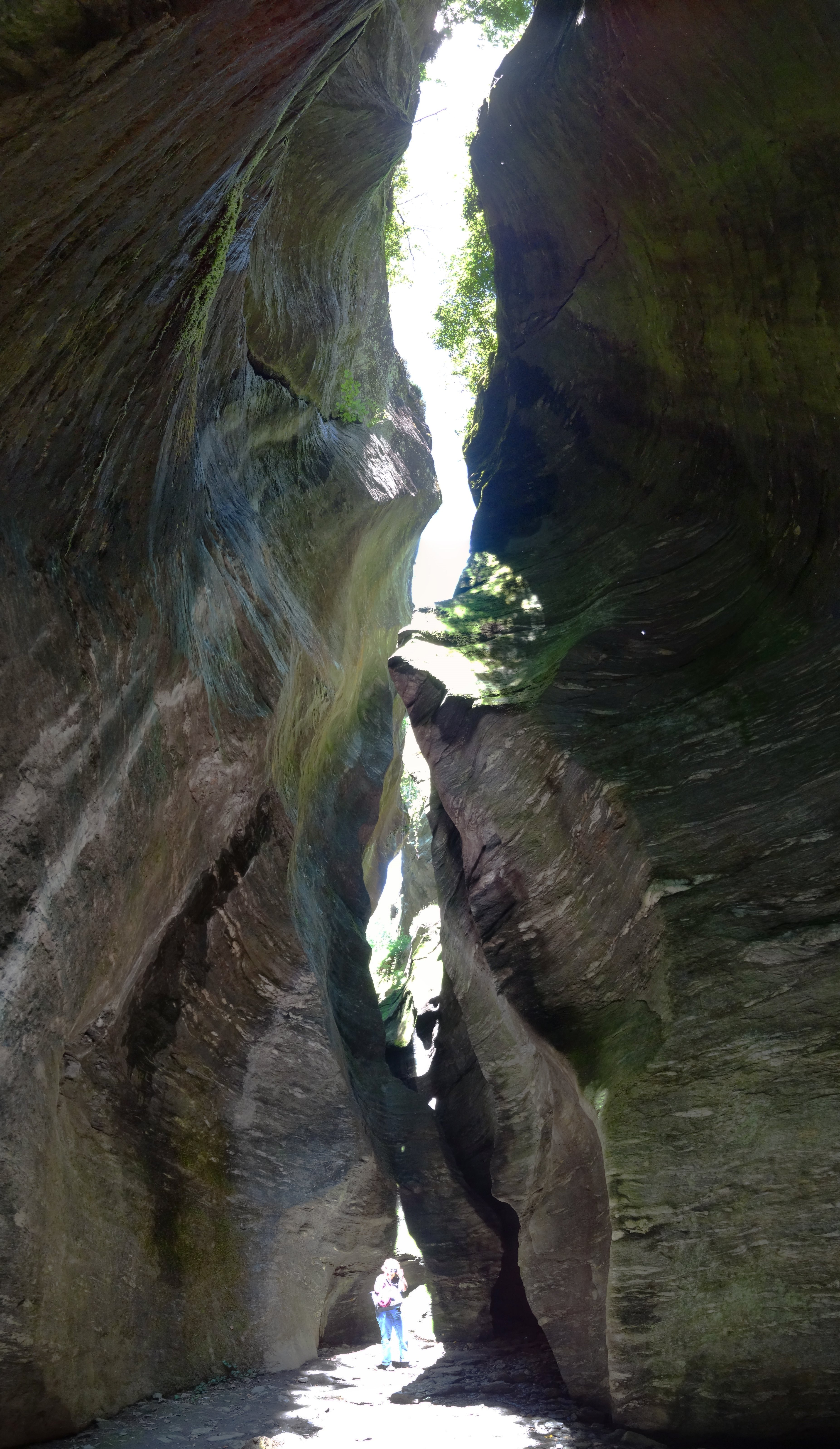 in the south canyon of Uriezzo